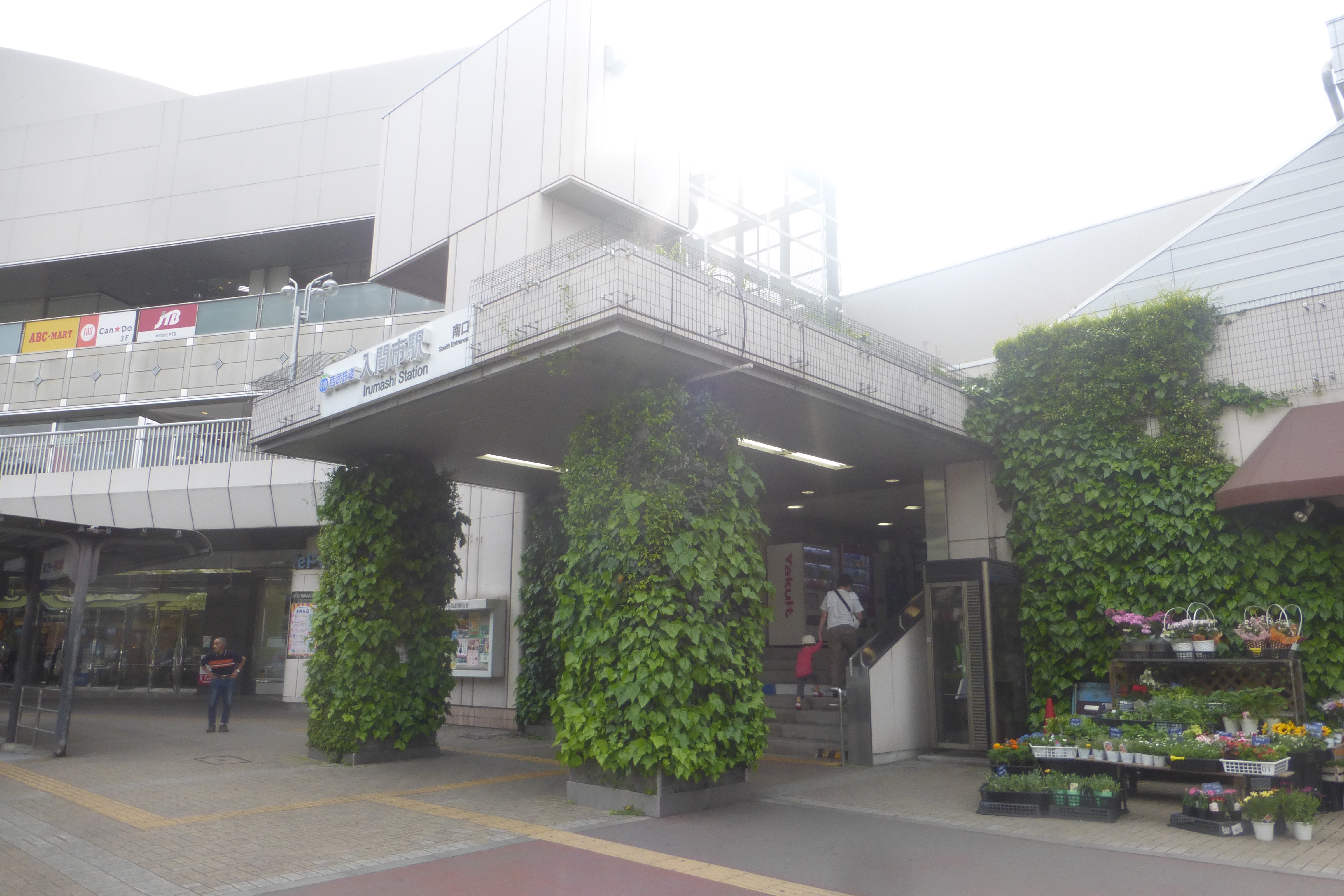 The south entrance to Irumashi Station in Saitama Prefecture, Japan